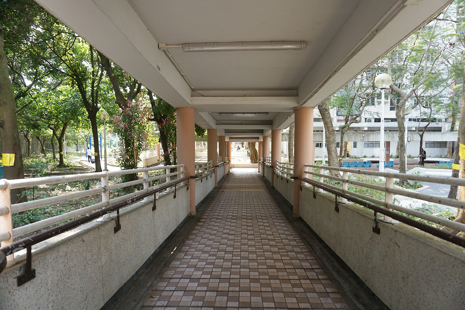 Tsui Ping (South) Estate in Kwun Tong, Hong Kong.